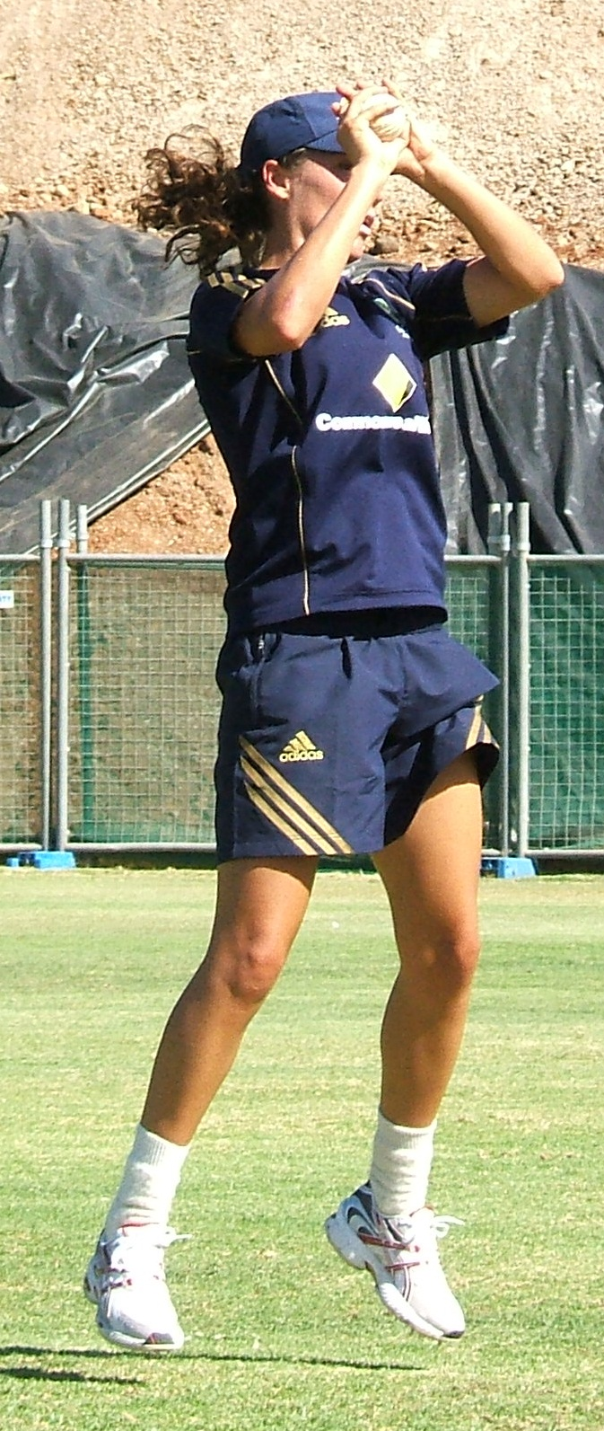 Named person engaging in named action at Adelaide Oval nets/training ground